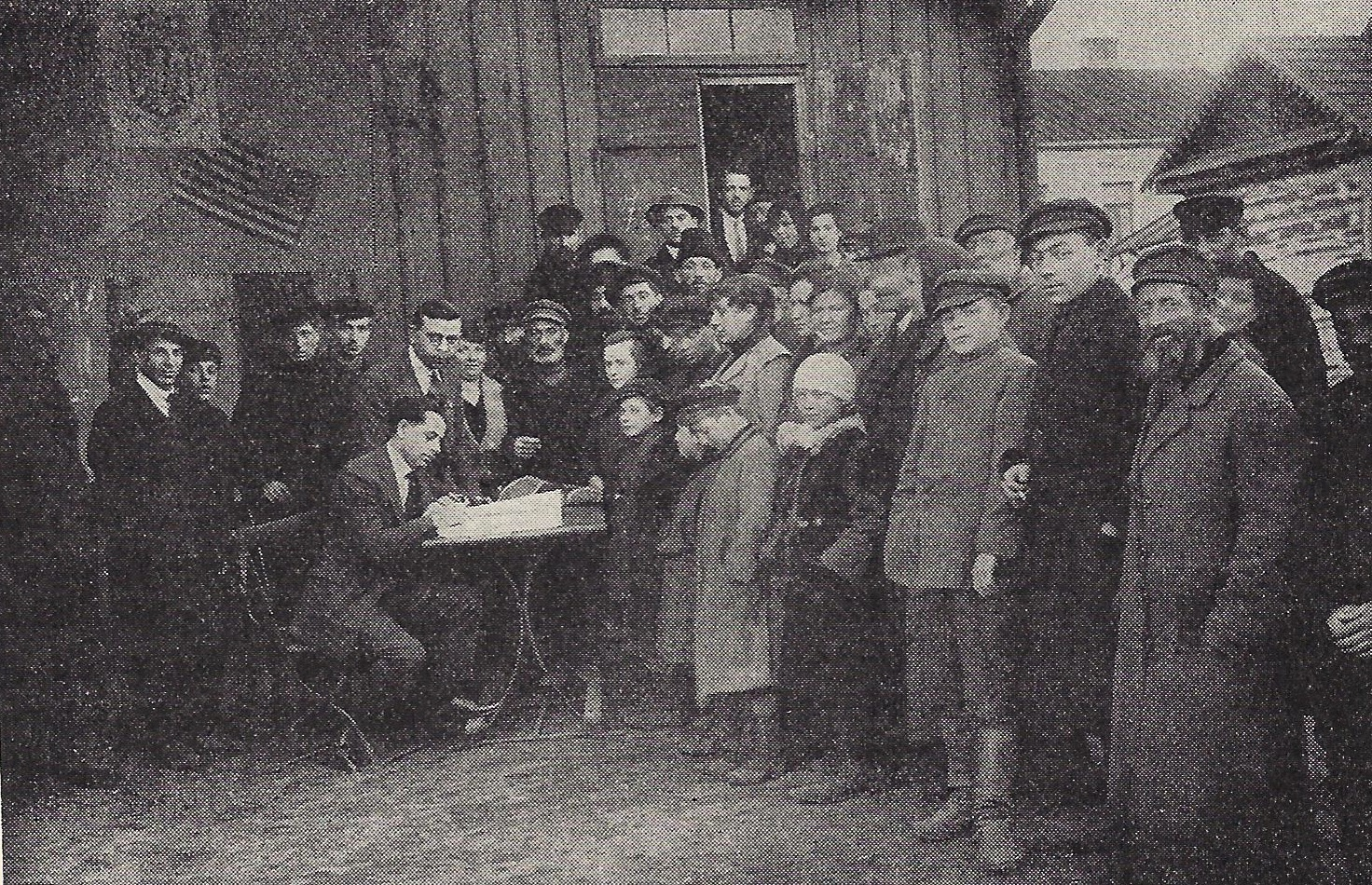 Distribution of funds by the Brisker Relief Committee.